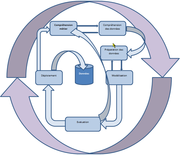 Phases of the CRISP-DM process